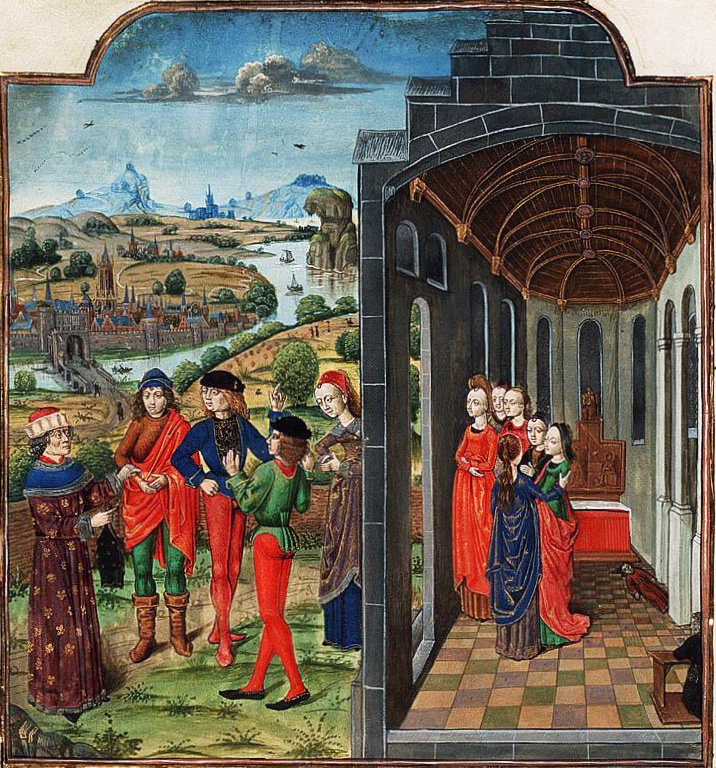 Giovanni Boccaccio and Florentines who have fled from the plague